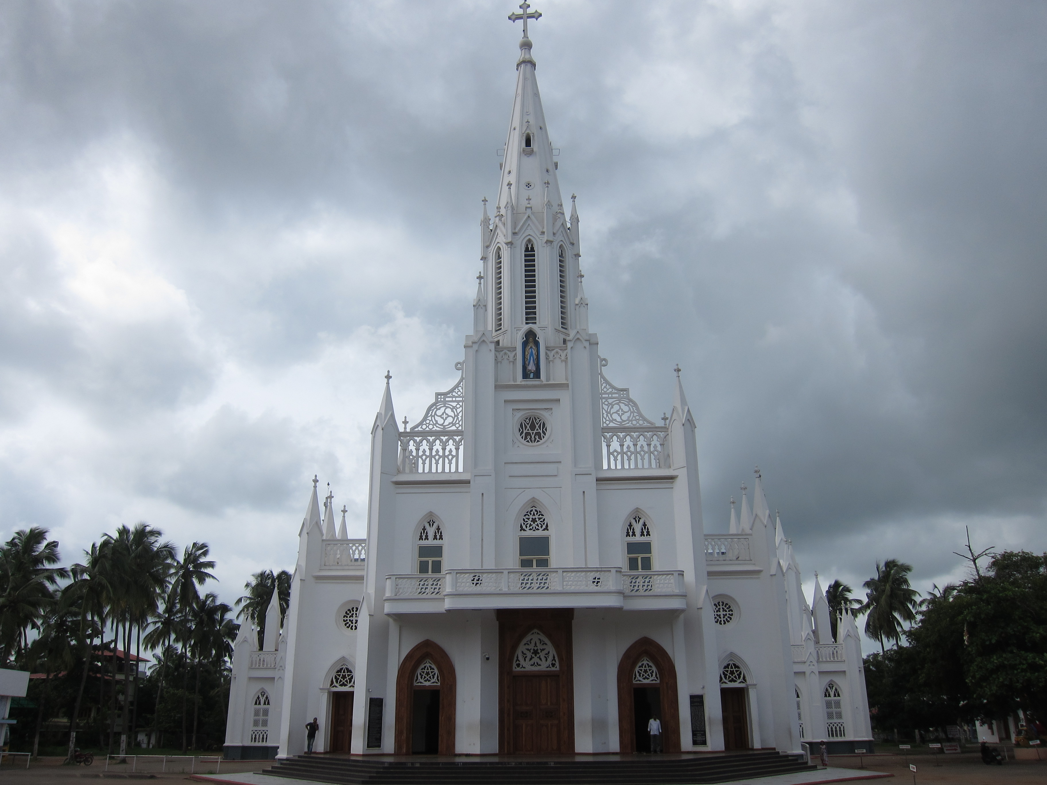 Thrissur Lourdes Church - ത്രിശ്ശൂർ ലൂർദ്ദ് പള്ളി ത്രിശ്ശൂർ അതിരൂപതയുടെ ആസ്ഥാന പള്ളിയാണ്. Our Lady of Lourdes Metropolitan Cathedral, Thrissur